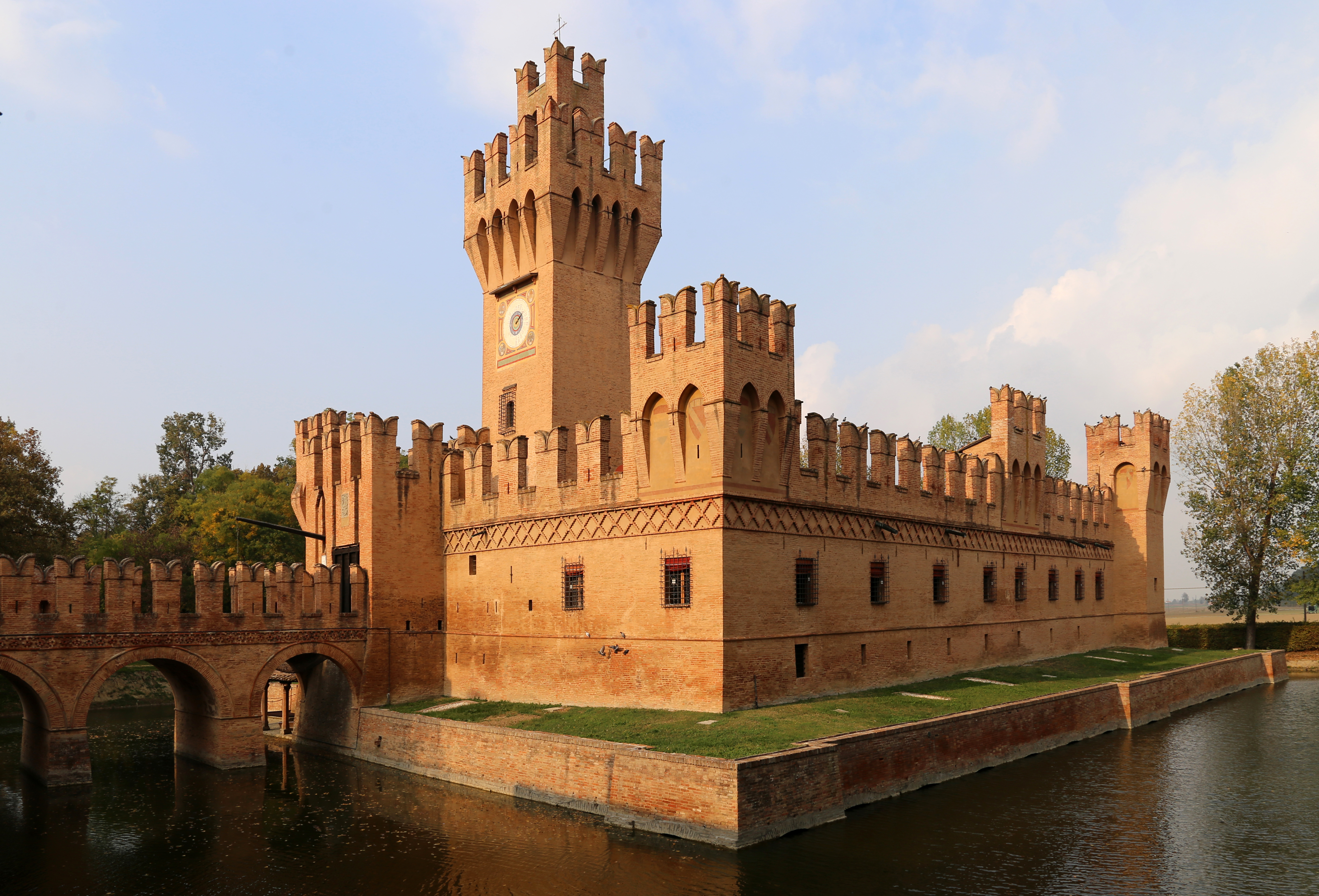 Castello di San Martino in Soverzano (San Martino in Soverzano, Minerbio)